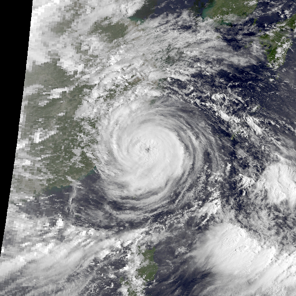 Typhoon Nelson on August 22, 1985. At the time Nelson had winds of 95.8 knts (110.2 mph, 177.5 kph), 1-min sustained, and a pressure of 950 mbar. Nelson was about 9 miles away from land and 13 hours away from landfall. This image was taken by the NOAA-8 Satellite.